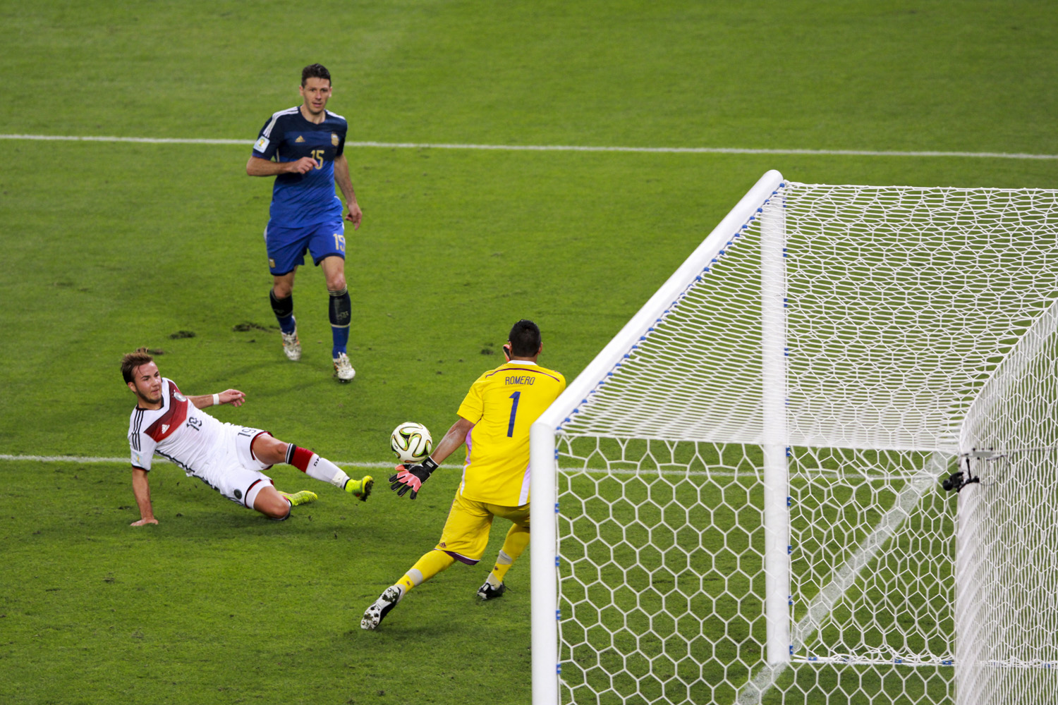 The final match of World Cup 2014 between Germany and Argentina 2014-07-13: Mario Götze scores the winnig goal